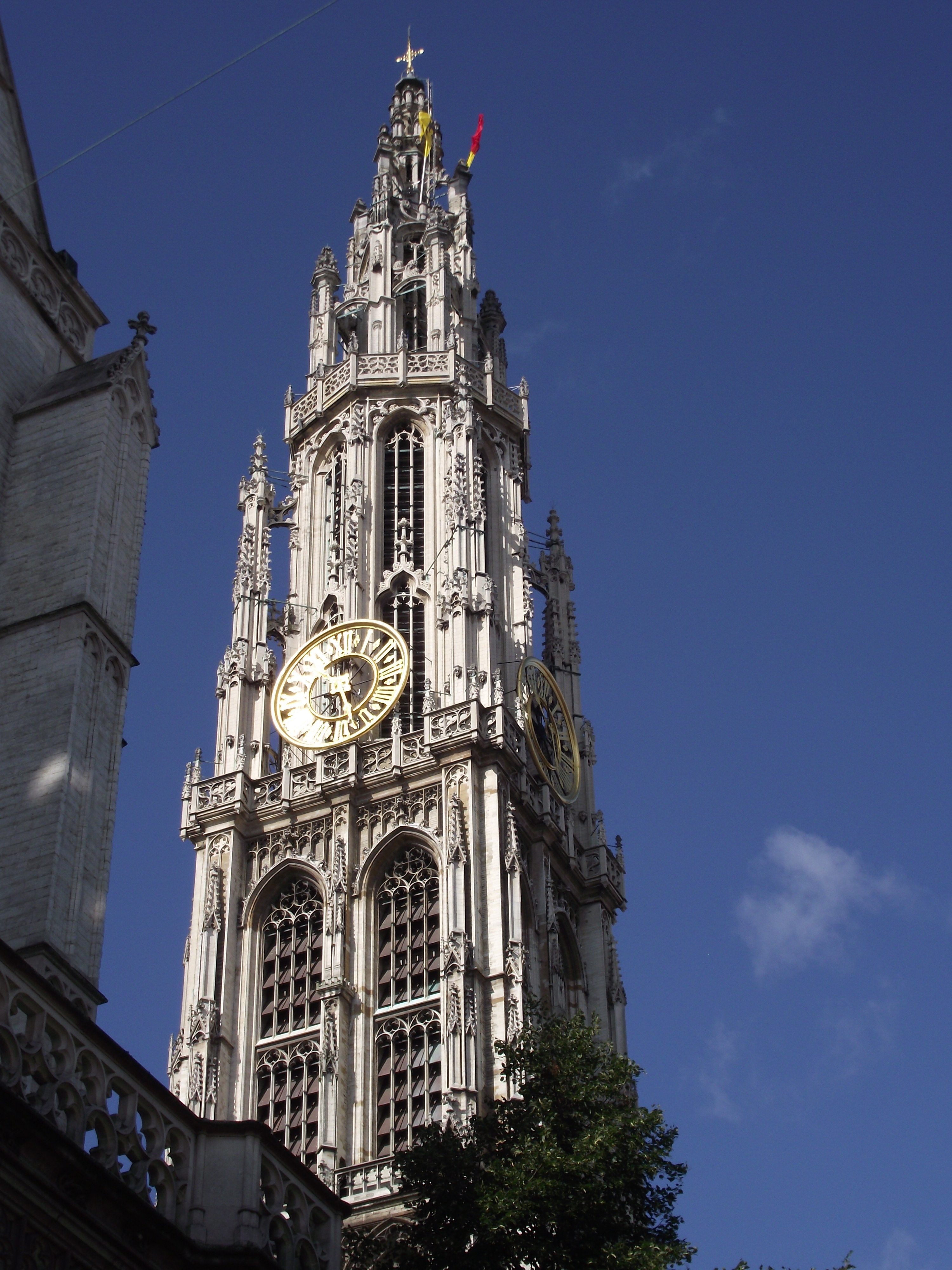 Antwerp, Cathedral's Tower by Herman de Waghemakere.